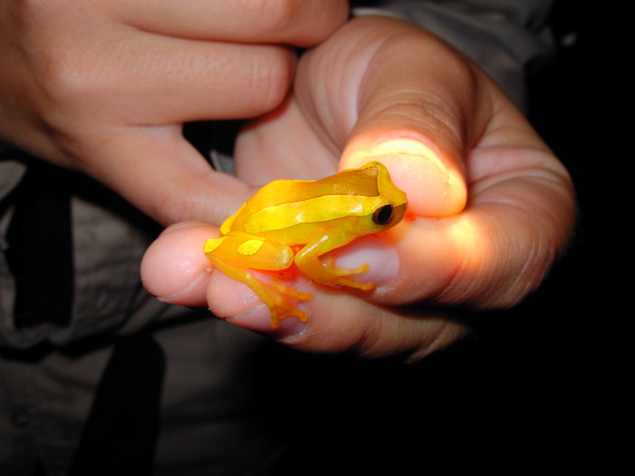 Yellow Tree frog from the Manu Learning Centre in Peru